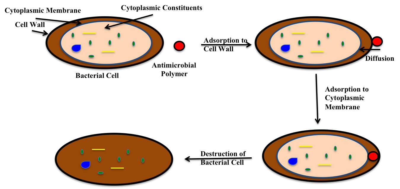 Shows how antimicrobial polymers kill bacteria